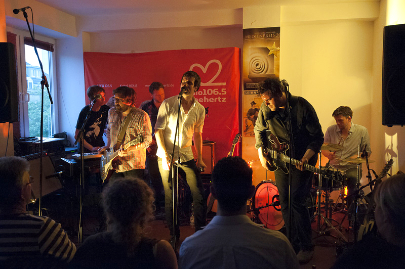 'Johnny Remember Me' played an exclusive concert at the leinehertz-lounge.